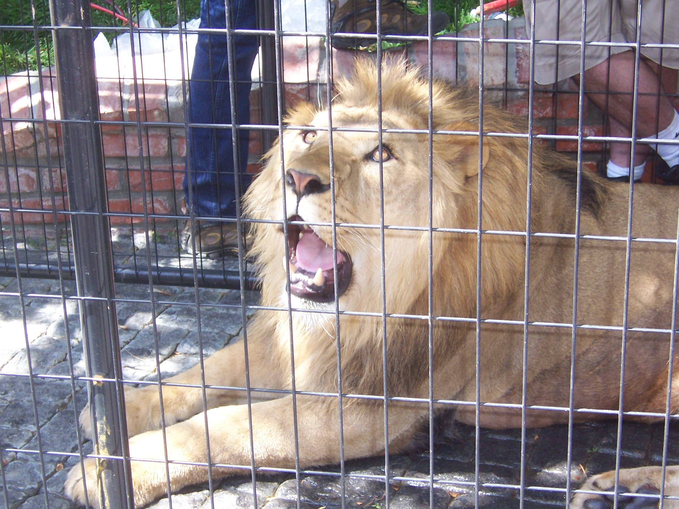 Lion in captivity